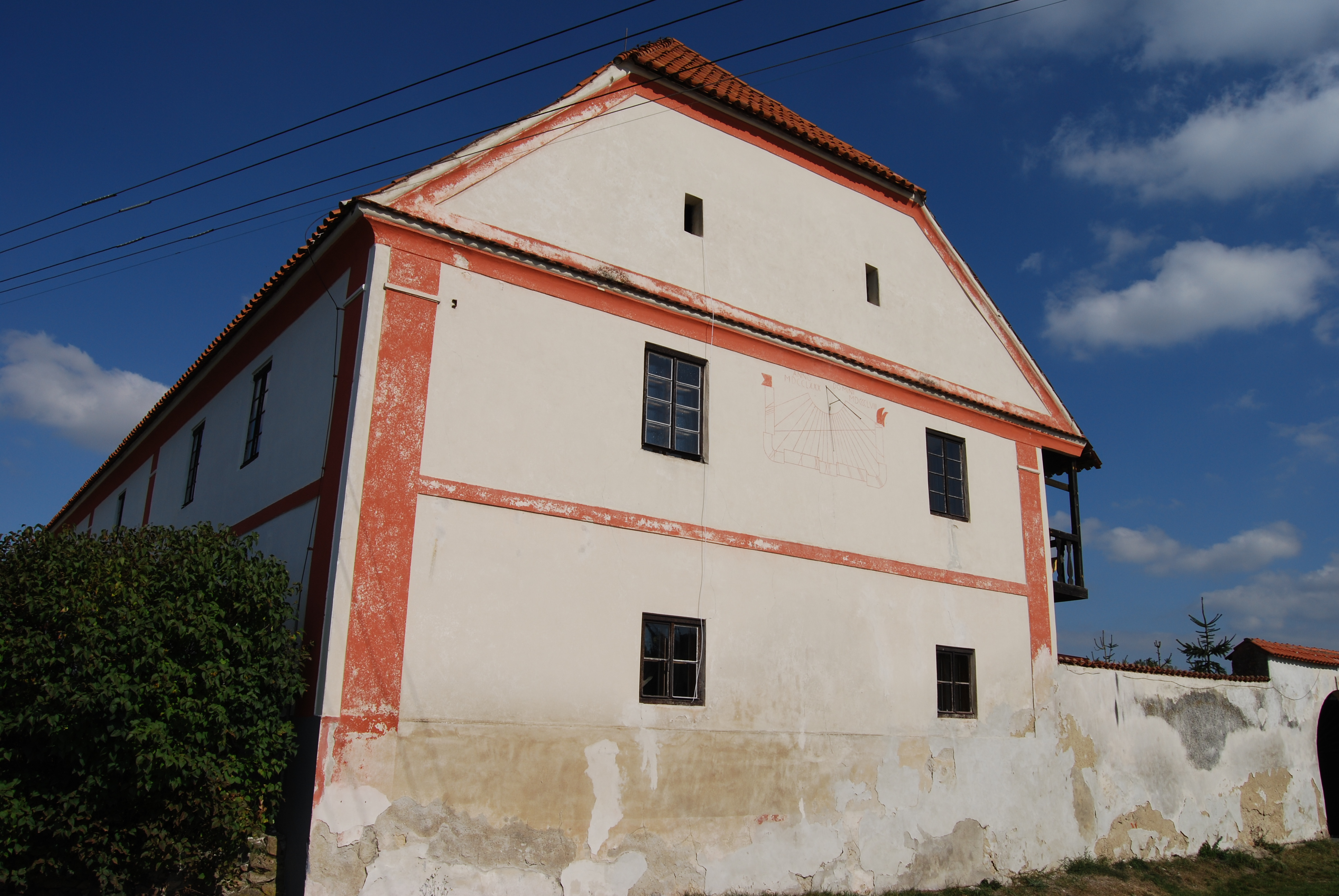 Myštice village in Strakonice District, Czech Republic. Pub from 16th century